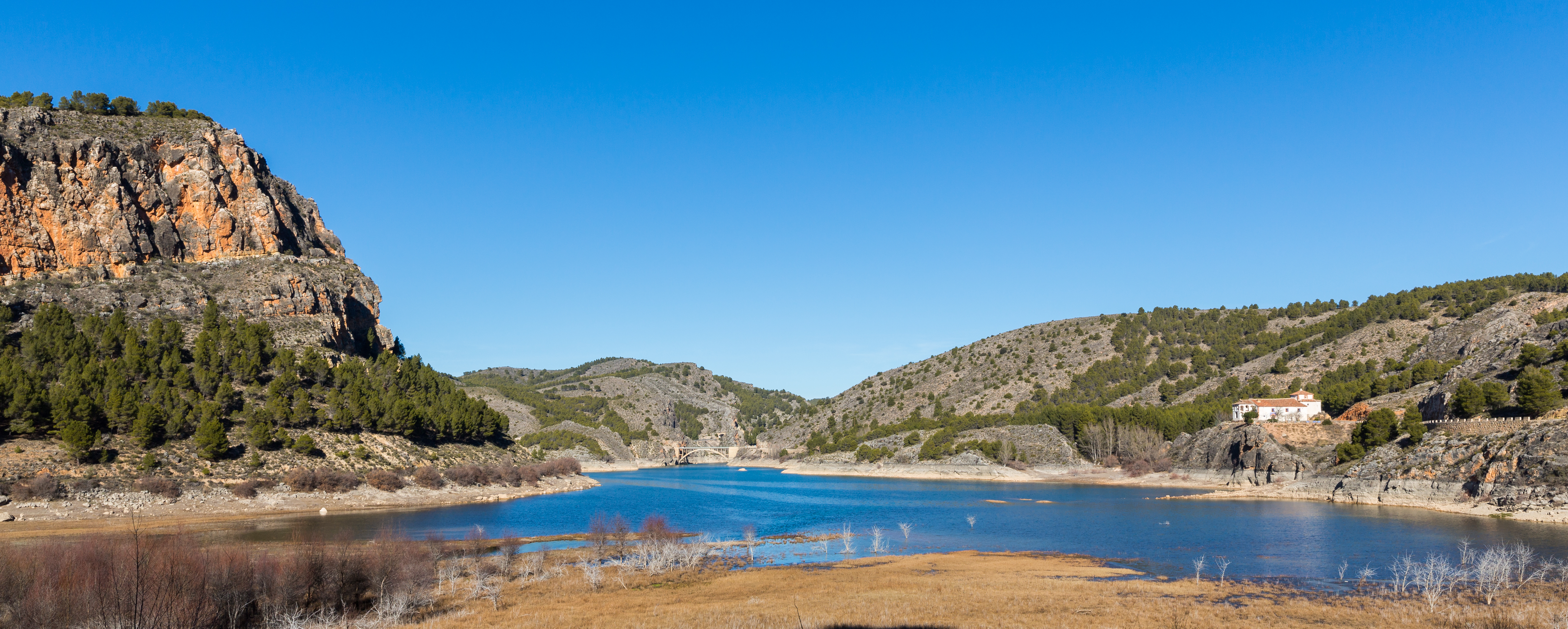 Reservoir of La Tranquera, Zaragoza, Spain